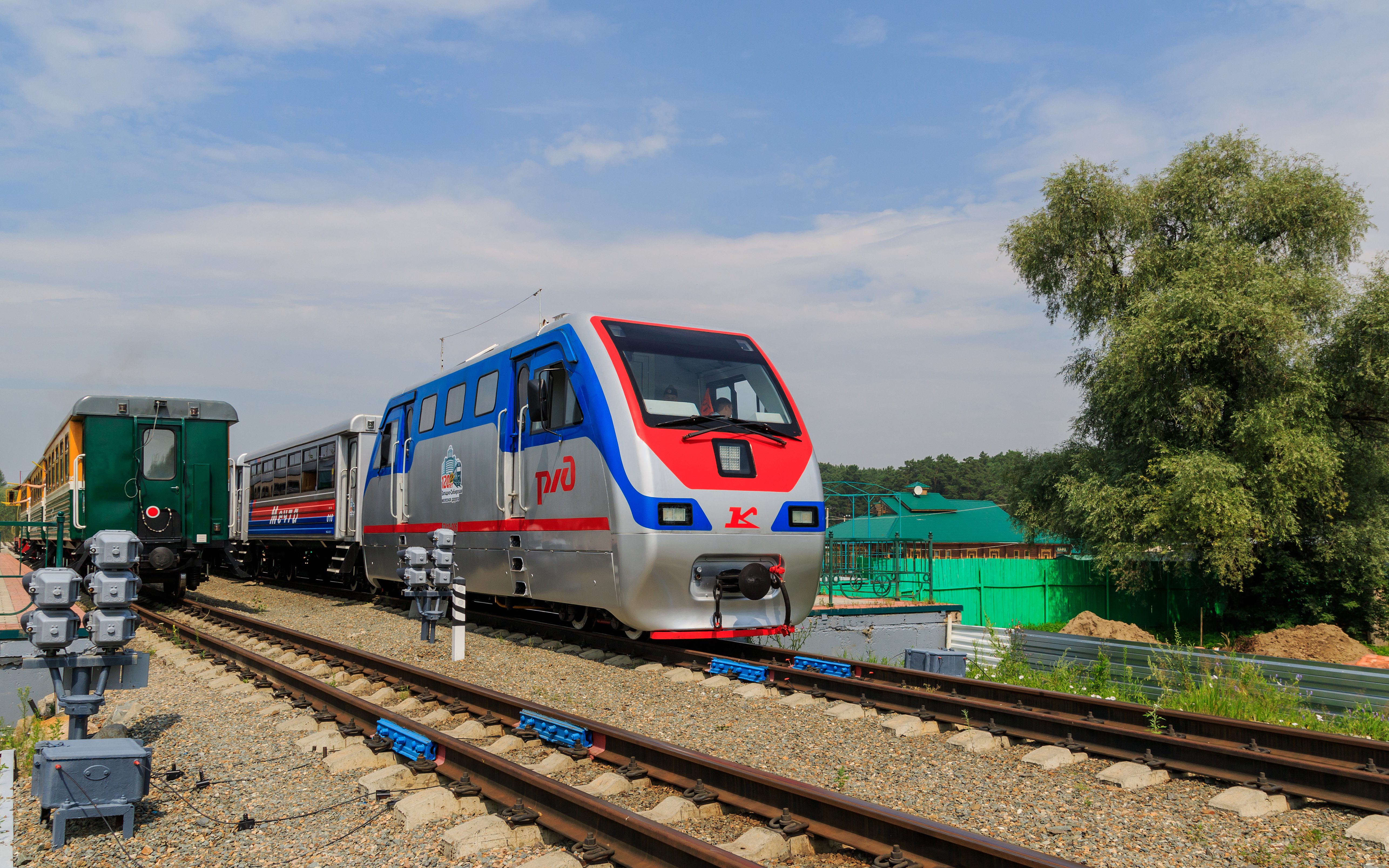 Children's railway of Zaeltsovsky Park in Novosibirsk, Russia